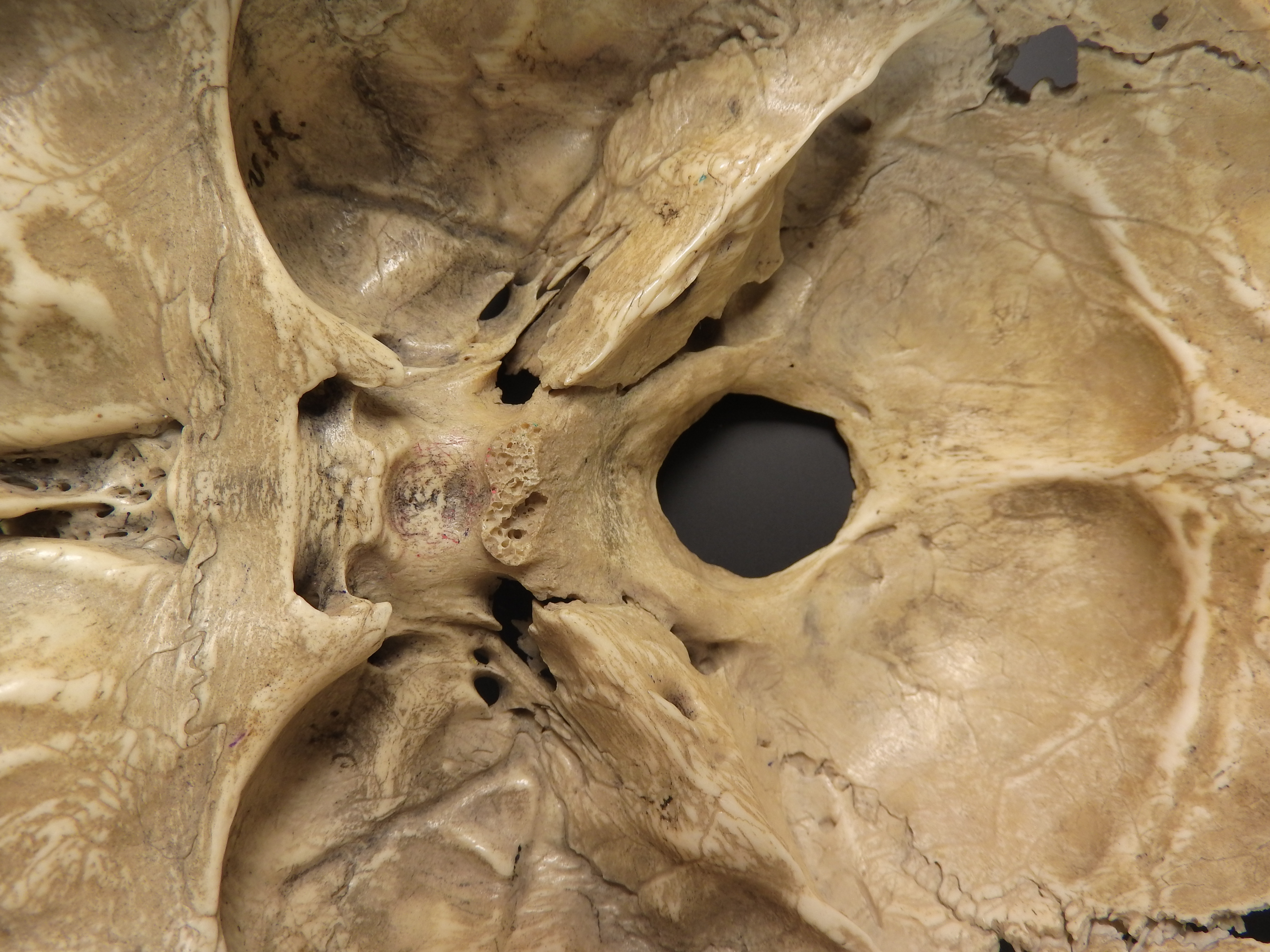 This item is a part of anthropological collections of the Department of Biology and Environmental Studies of the Faculty of Education of Charles University. Its reproduction is part of a project funded by the Student Grant in 2019.